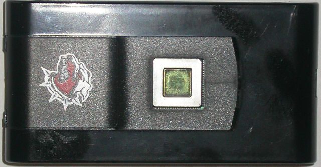 External Picture of the Original BlackDog